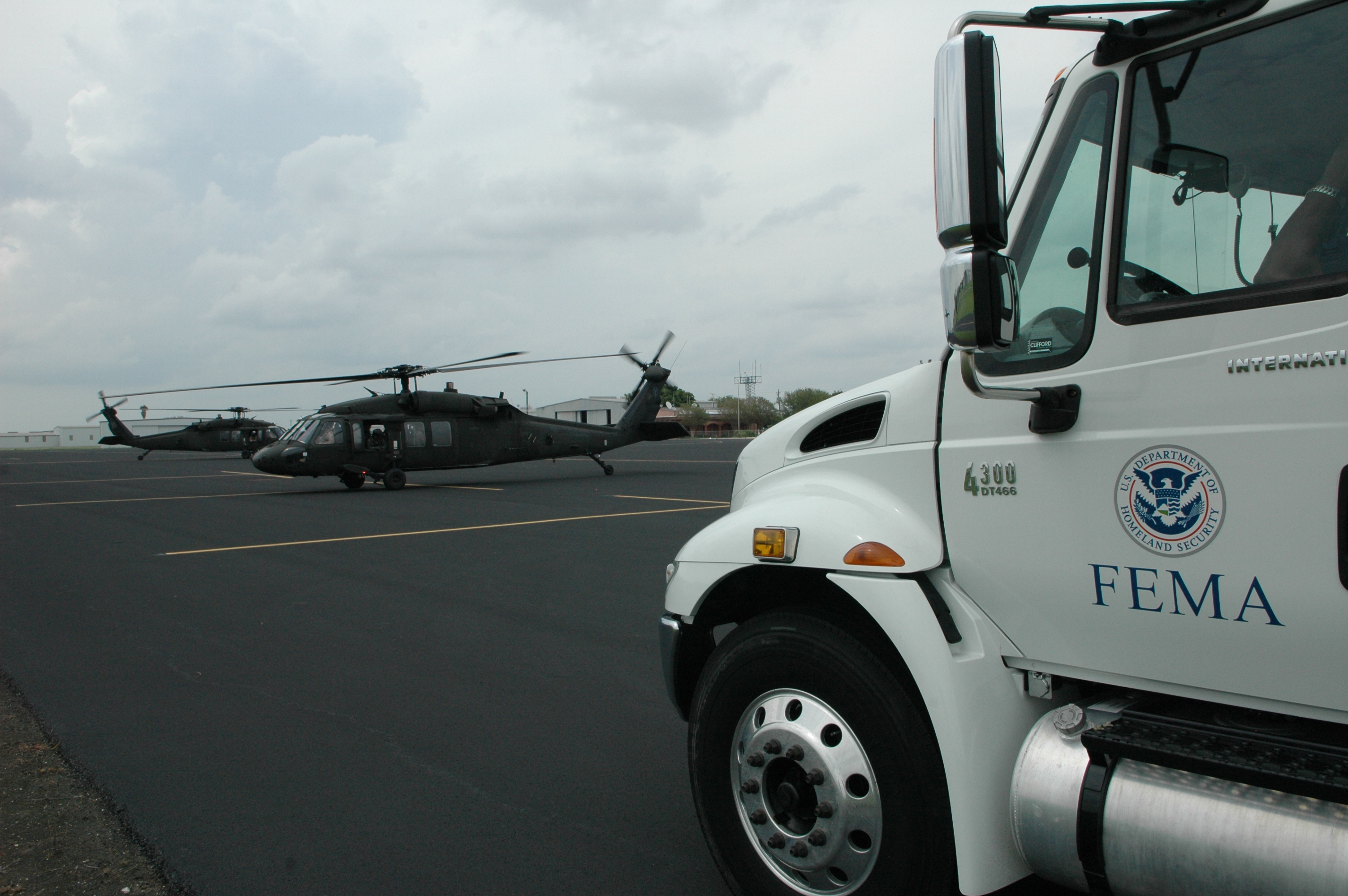 Welasco,TX, July 24, 2008 -- Texas Army National Guard Blackhawks at the Mid-Valley Airport with a FEMA truck. FEMA operations will join forces with the National Guard. They are working together following Hurricane Dolly. Barry Bahler/FEMA